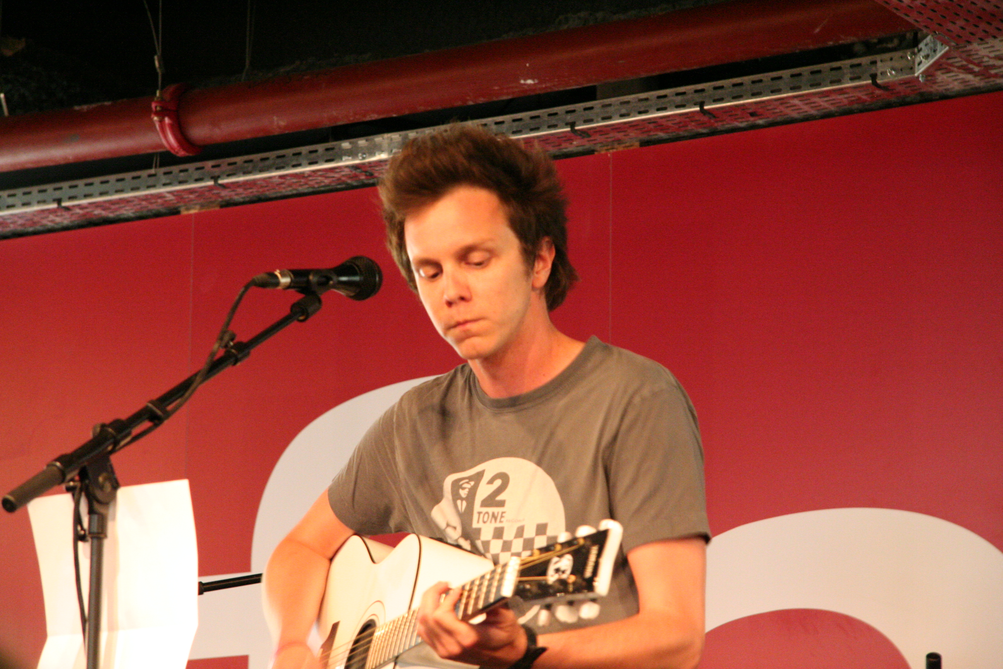 Thomas Boulard, lead singer and guitarist. Show-case with Luke at Fnac Montparnasse (Paris, France).